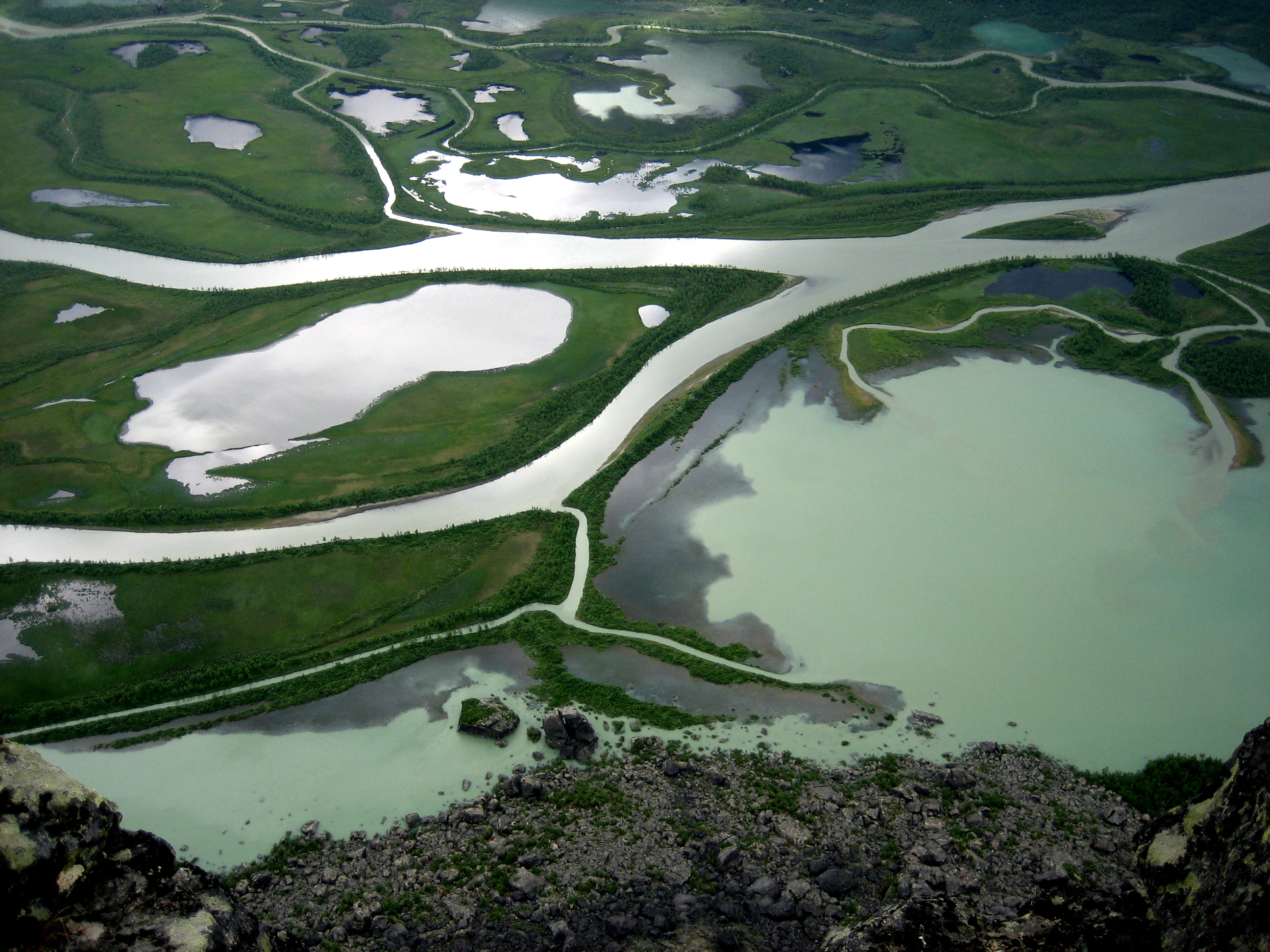 Photo taken from the summit of Skierfe. Lappland, Sweden.Delta